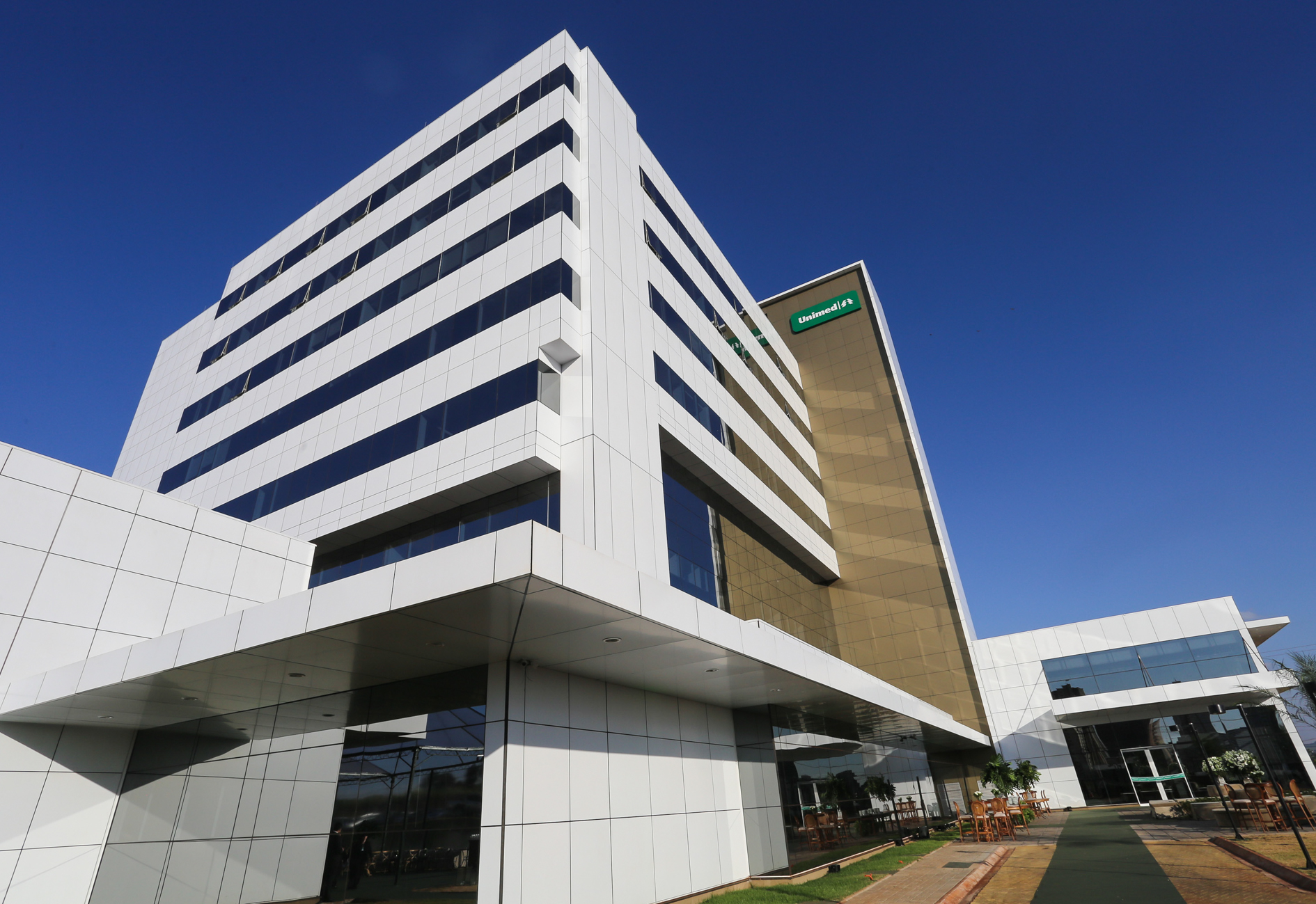 O governador do estado de São Paulo, participa da cerimônia de inauguração do Hospital Unimed Ribeirão.Data: 06/05/2016. Local: Ribeirão Preto/SP.Foto: Gilberto Marques/A2img